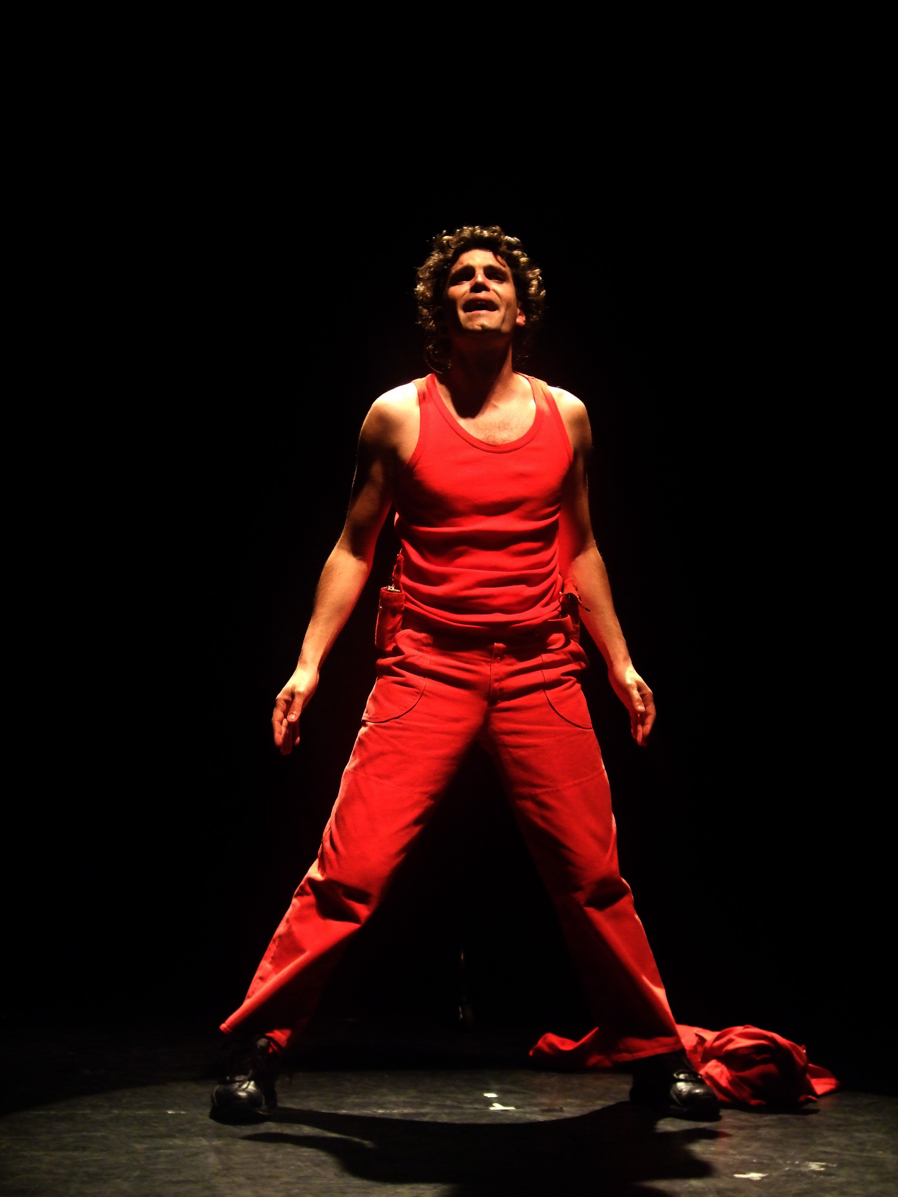 "Les Wriggles" in Clermont-Ferrand (Auvergne, France).